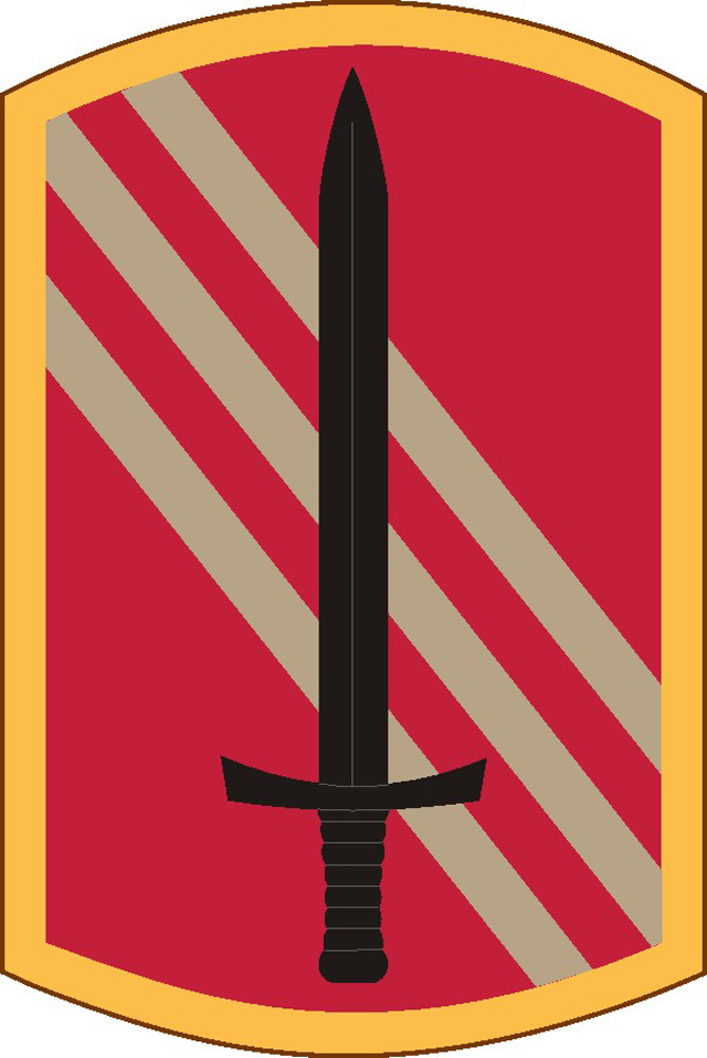 113th SB unit insignia.